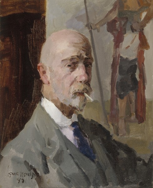 Self-portrait with a painting of the Javanese prince Raden Mas Jodjana. For Jodjana see Isaac Israels and Raden Mas Jodjana: an East Indian friendship (in Dutch)